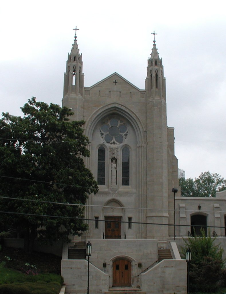 An image of the west front of the Cathedral of Christ the King in Atlanta, Georgia (GA) USA